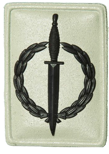 SANDF Qualification Special Forces Operator badge embossed